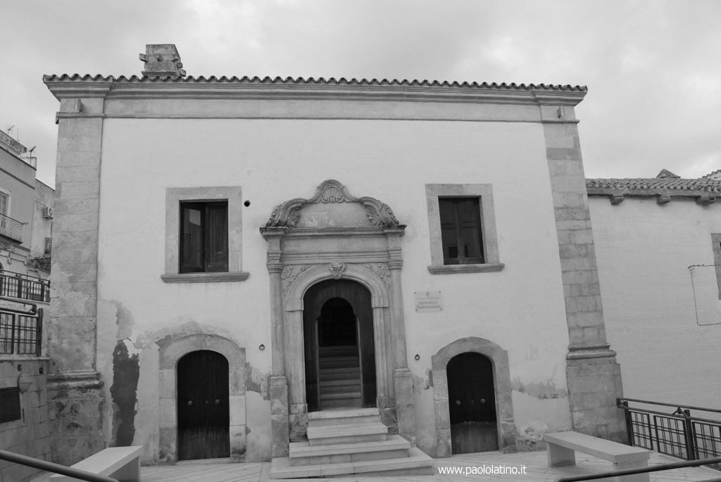 Mattinata Palazzo Mantuano